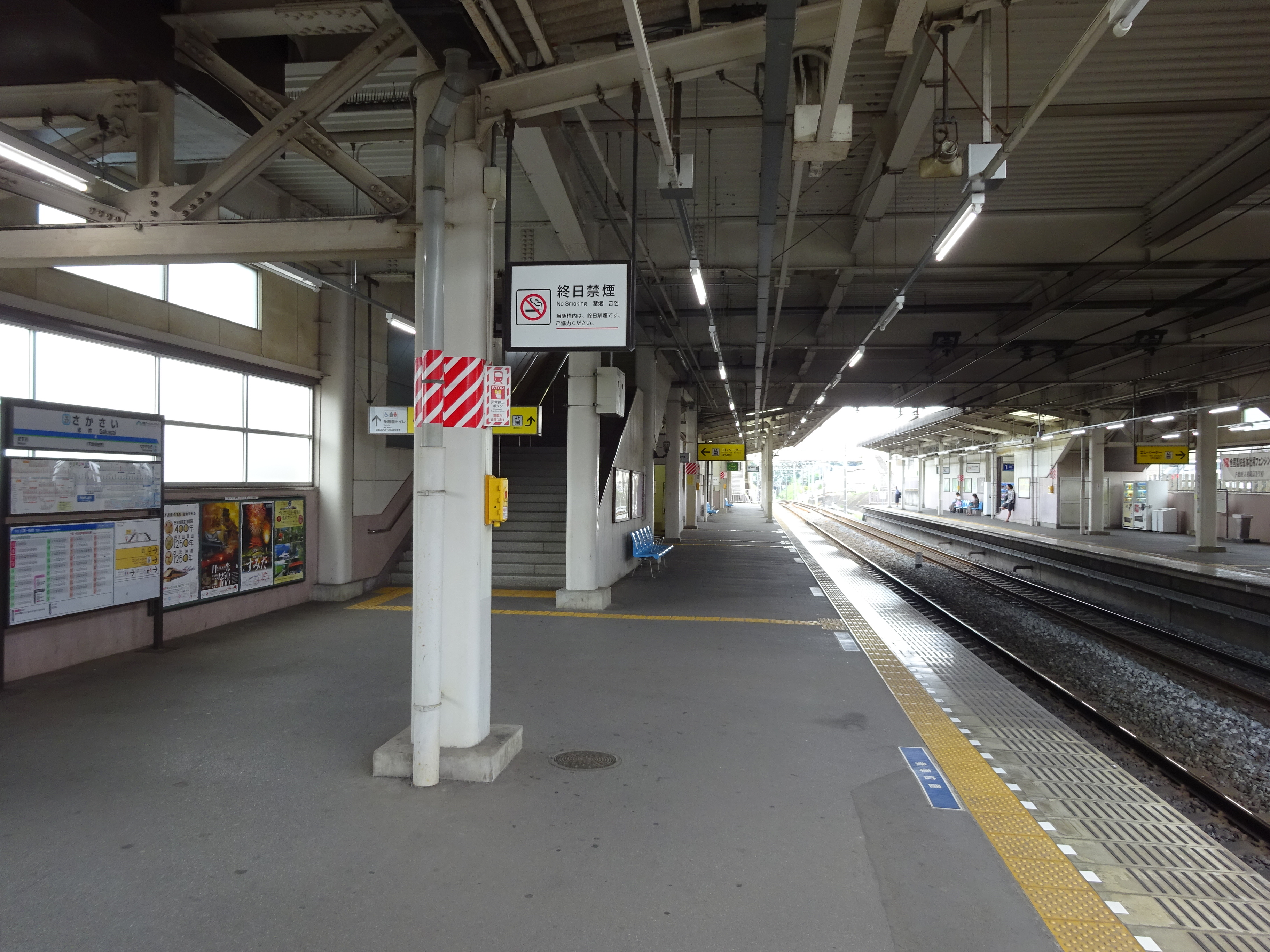 Platforms of Sakasai Station